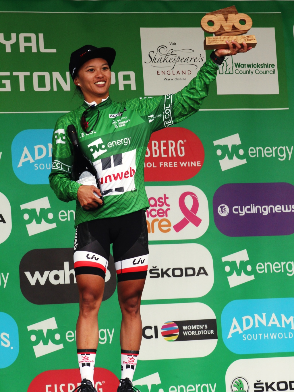 Coryn Rivera, winner of the 2018 OVO Energy Women's Tour, on the podium at Royal Leamington Spa at the end of stage 3.